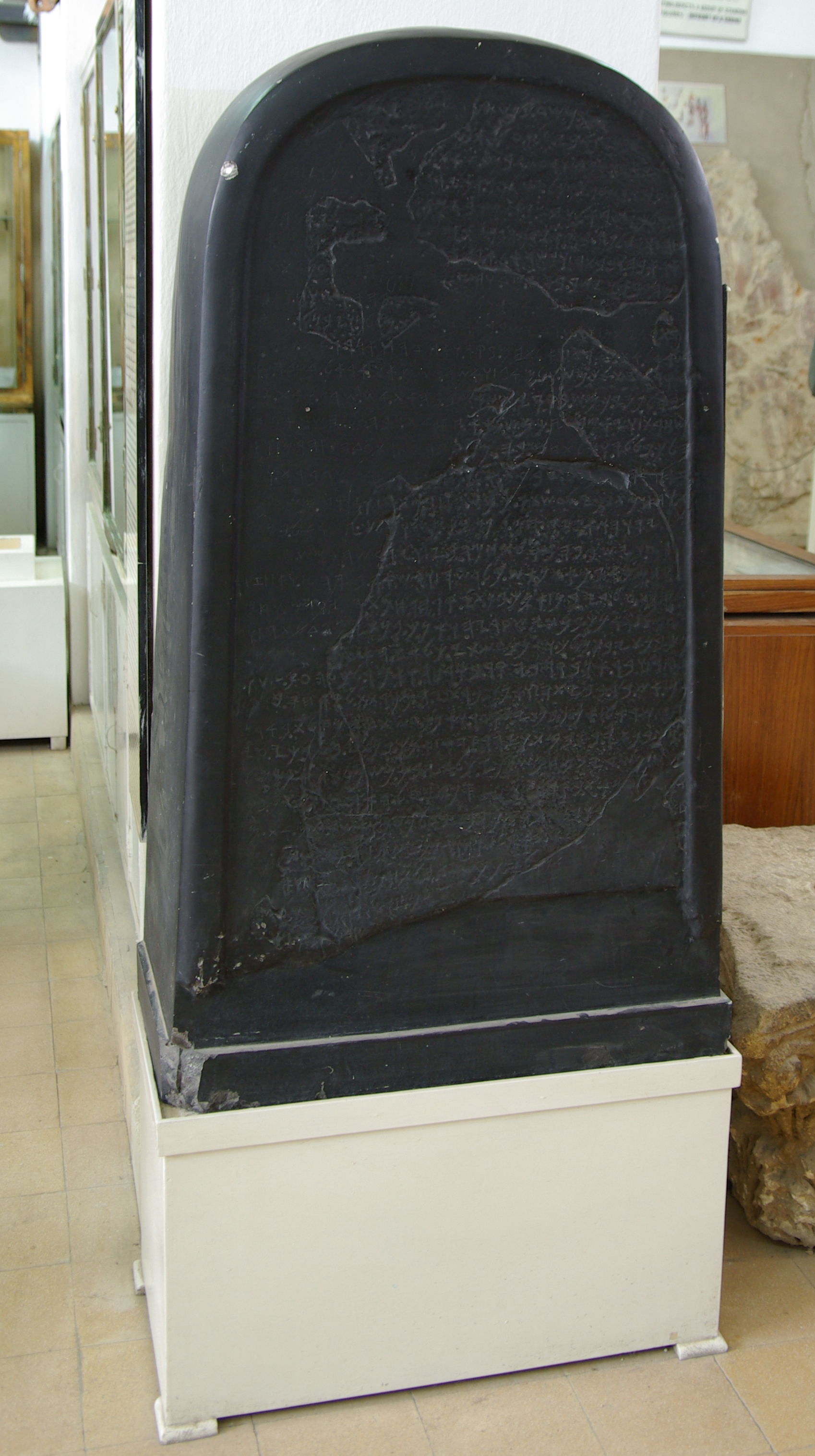 Jordan, Amman, copy of the Mesha Stele in the Jordan Archaeological Museum